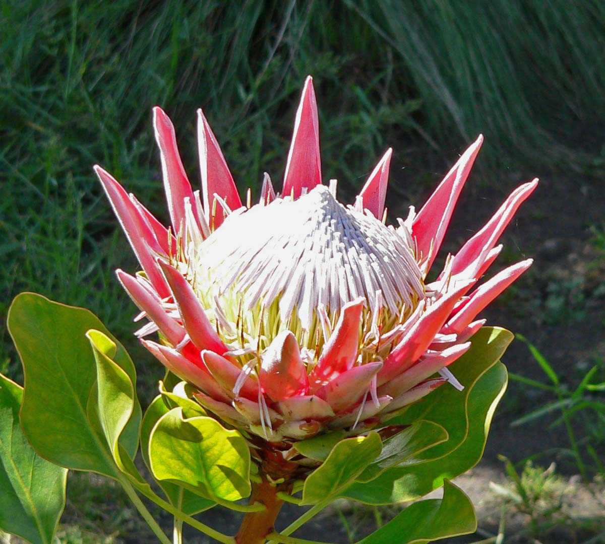 Photo of Protea cynaroides at the San Francisco Botanical Garden